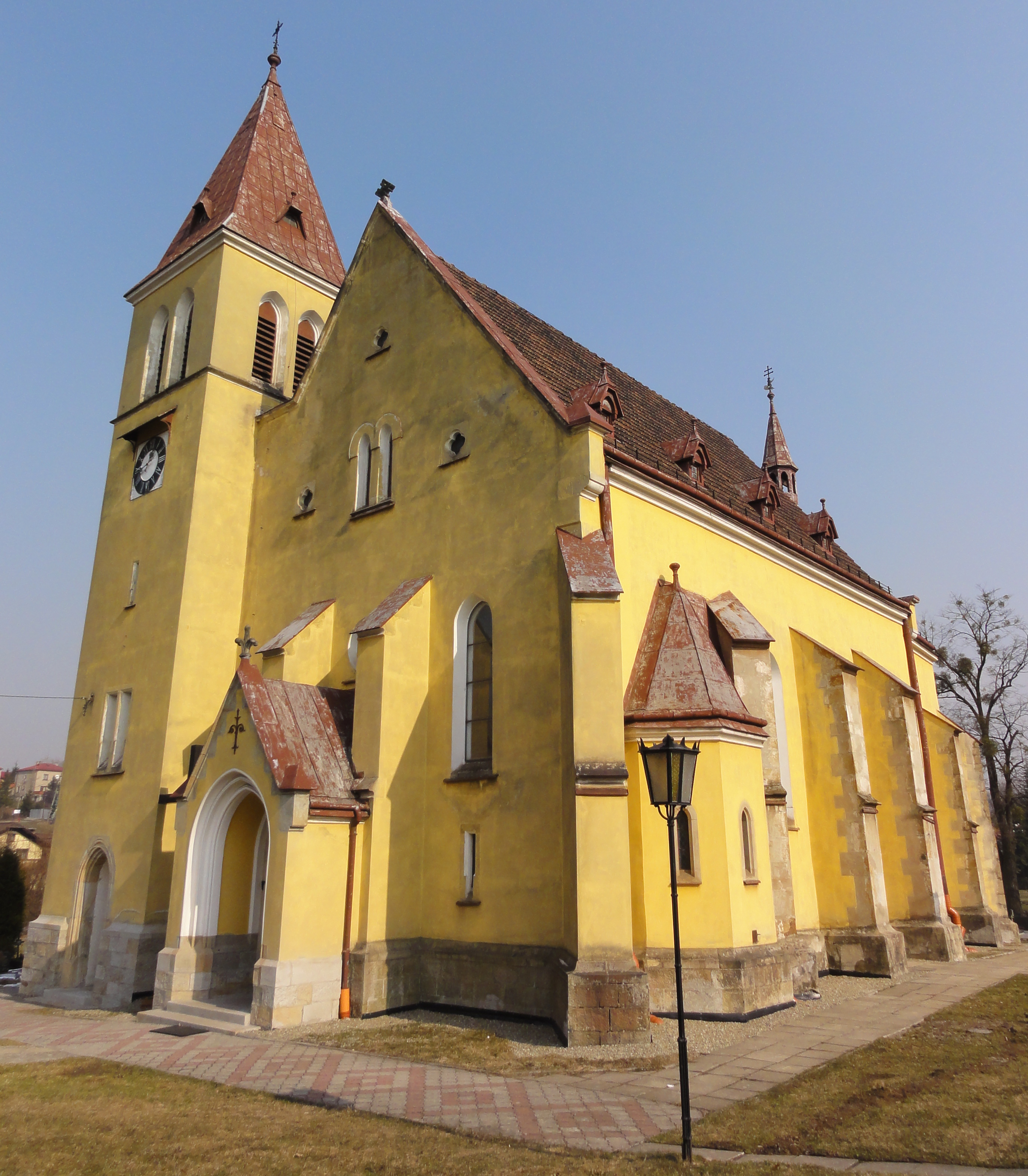 Catholic church of Saint George in Puńców